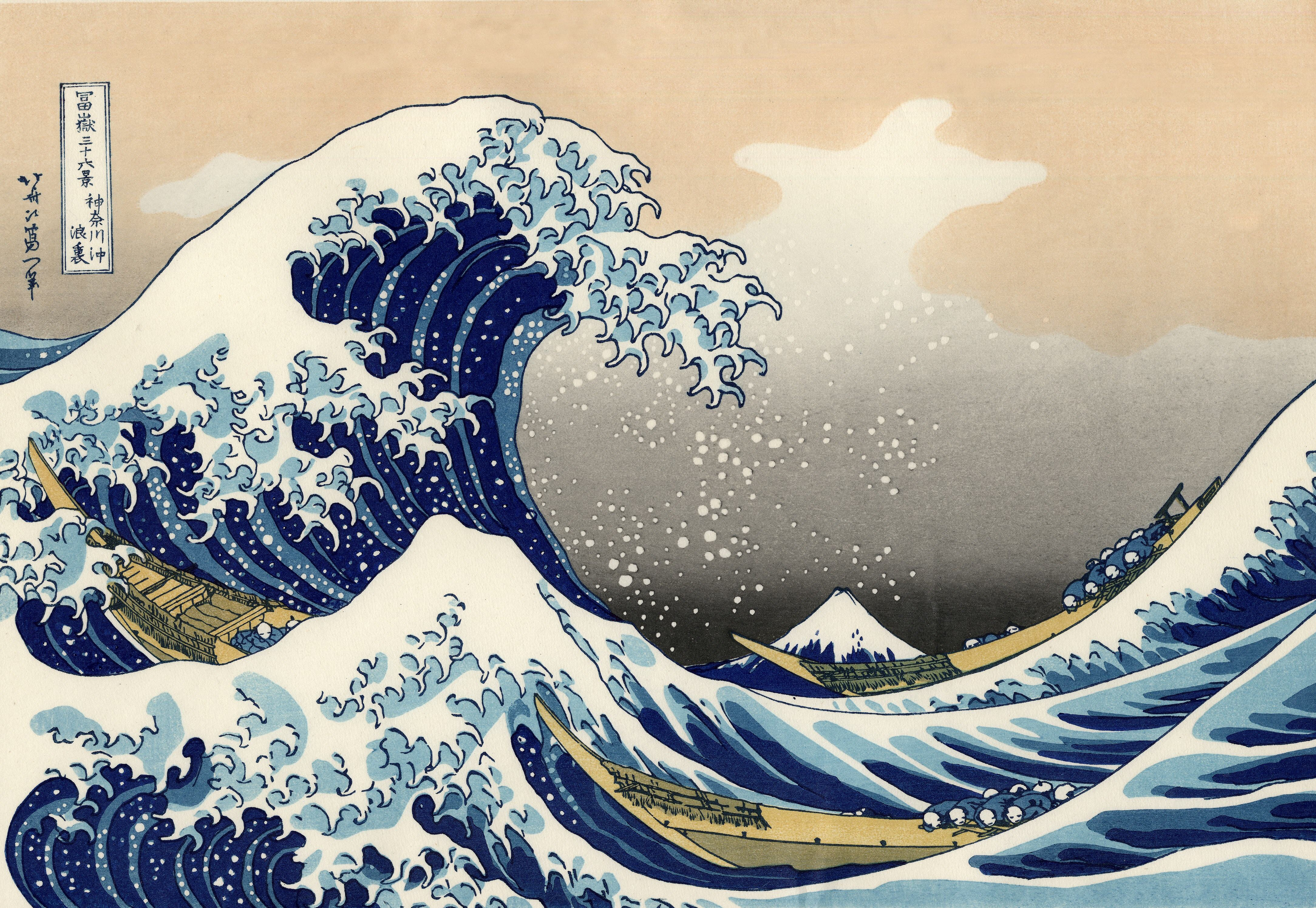 Modern recut copy of The Great Wave off Kanagawa (神奈川沖波裏), from 36 Views of Mount Fuji, Color woodcut. Although it is often used in tsunami literature, there is no reason to suspect that Hokusai intended it to be interpreted in that way. The waves in this work are sometimes mistakenly referred to as tsunami (津波), but they are more accurately called okinami (沖波), great off-shore waves.